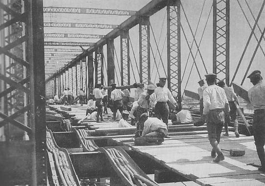 Activity of military corps for temporary improving of Azumabashi